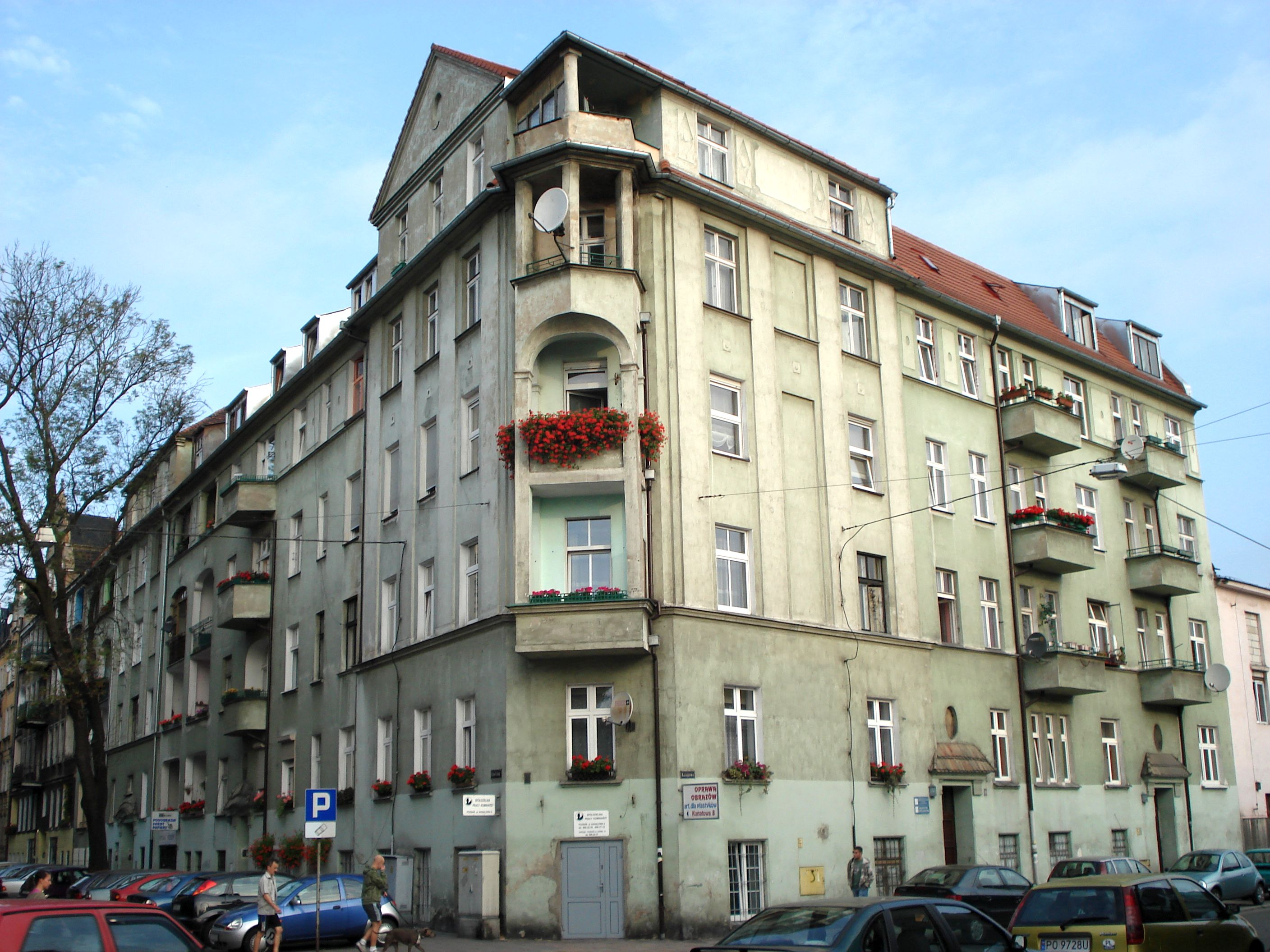 House no. 55-55a, Kolejowa Street in Poznań